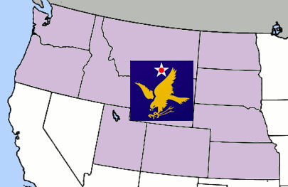 Map of World War II USAAF 2d Air Force region of the United States